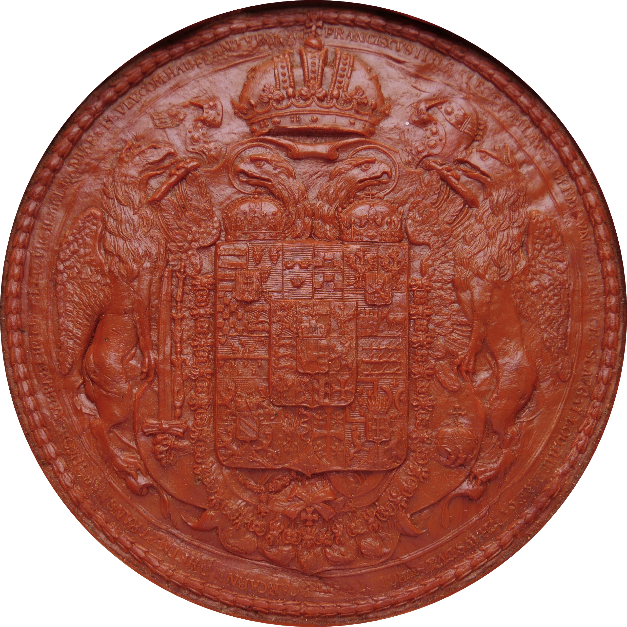 1810 The ceremonial seal of the imperial Francis II from the diploma of Count Ritter von Mitscha. From Micza's private family collections.